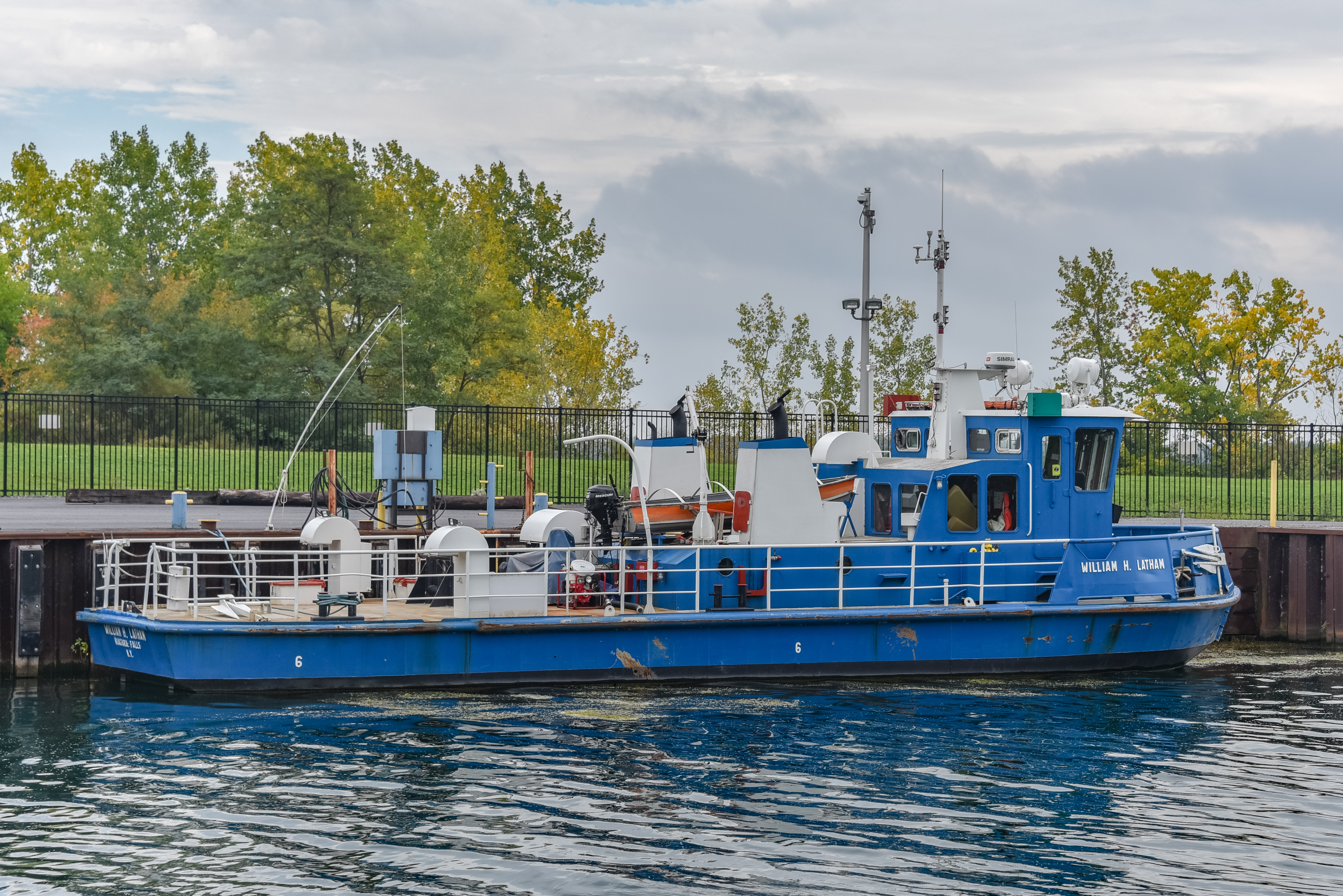 Niagara Power Authority icebreaker, WILLIAM H LATHAM - MMSI 316002623, at her dock along the Niagara River in Niagara Falls, NY USA on October 6, 2018.